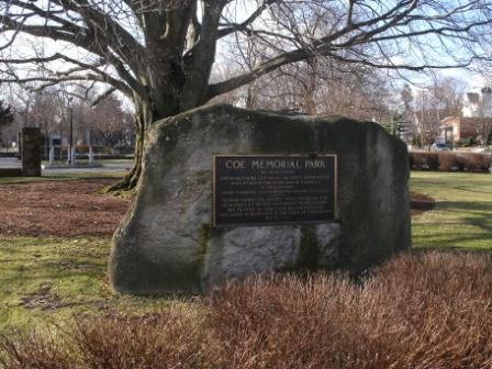 Rock in Coe Memorial Park in Torrington, Connecticut